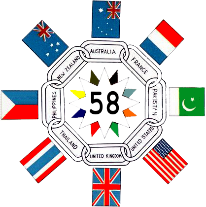 Emblem of the exercise "Oceanlink", in 1958. "Oceanlink" was a military exercise of the Southeast Asia Treaty Organization (SEATO), held between 1 May and 13 May 1958. 24 ships and submarines from eight nations participated, in the largest SEATO exercise yet. Maneouvers were held between Singapore and the Philippines, which concluded with a fly-over of aircraft over Manila.